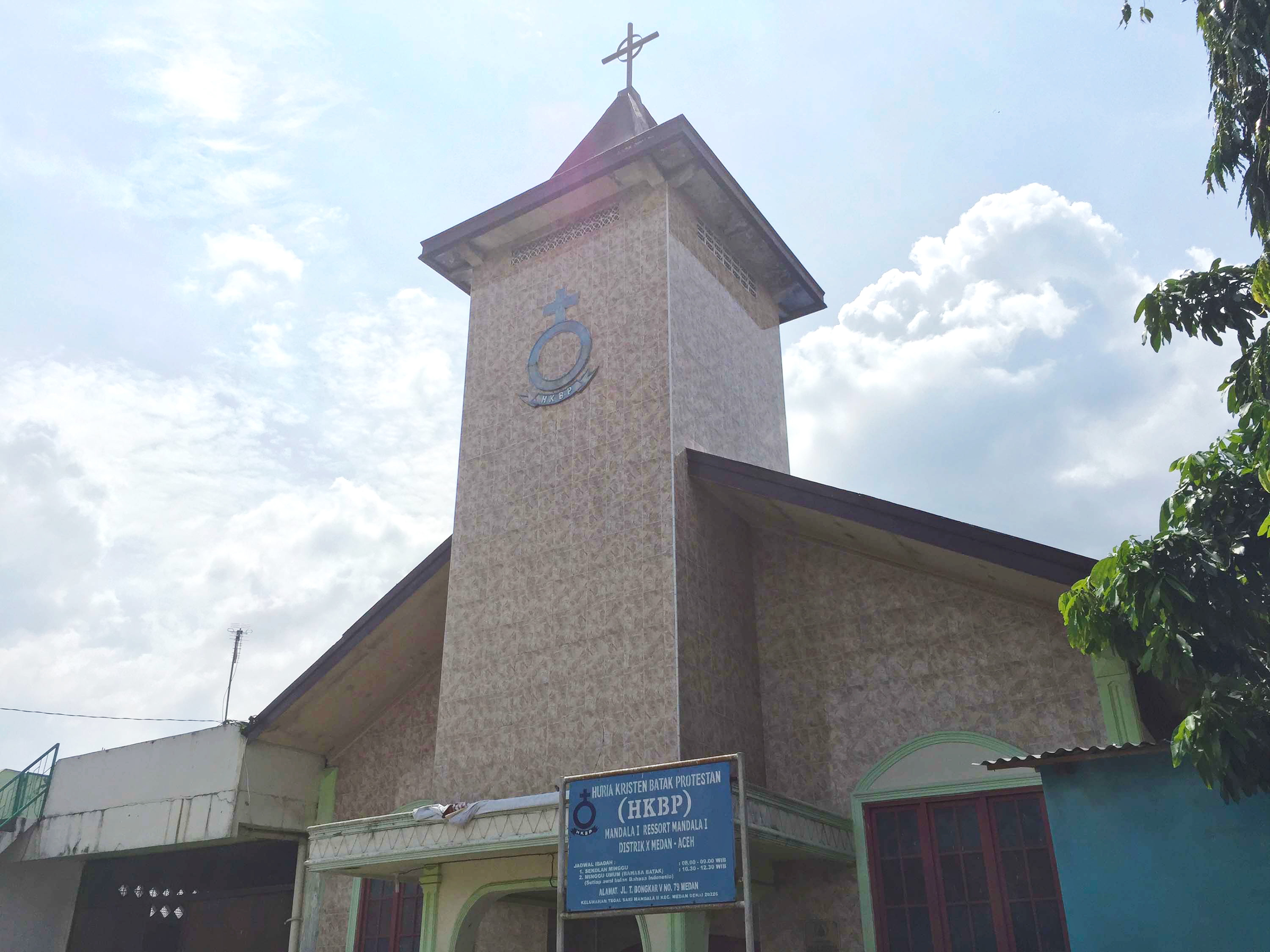 HKBP Mandala I, Res. Mandala I Church in Tegal Sari Mandala II, Medan Denai, Medan